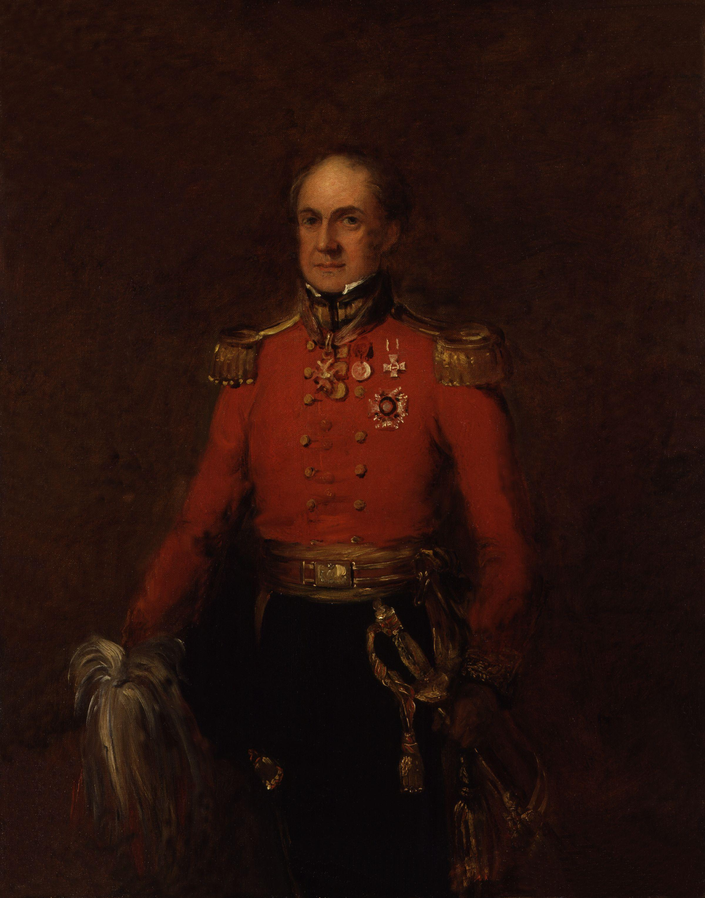 All images in this batch have been confirmed as author died before 1939 according to the official death date listed by the NPG.